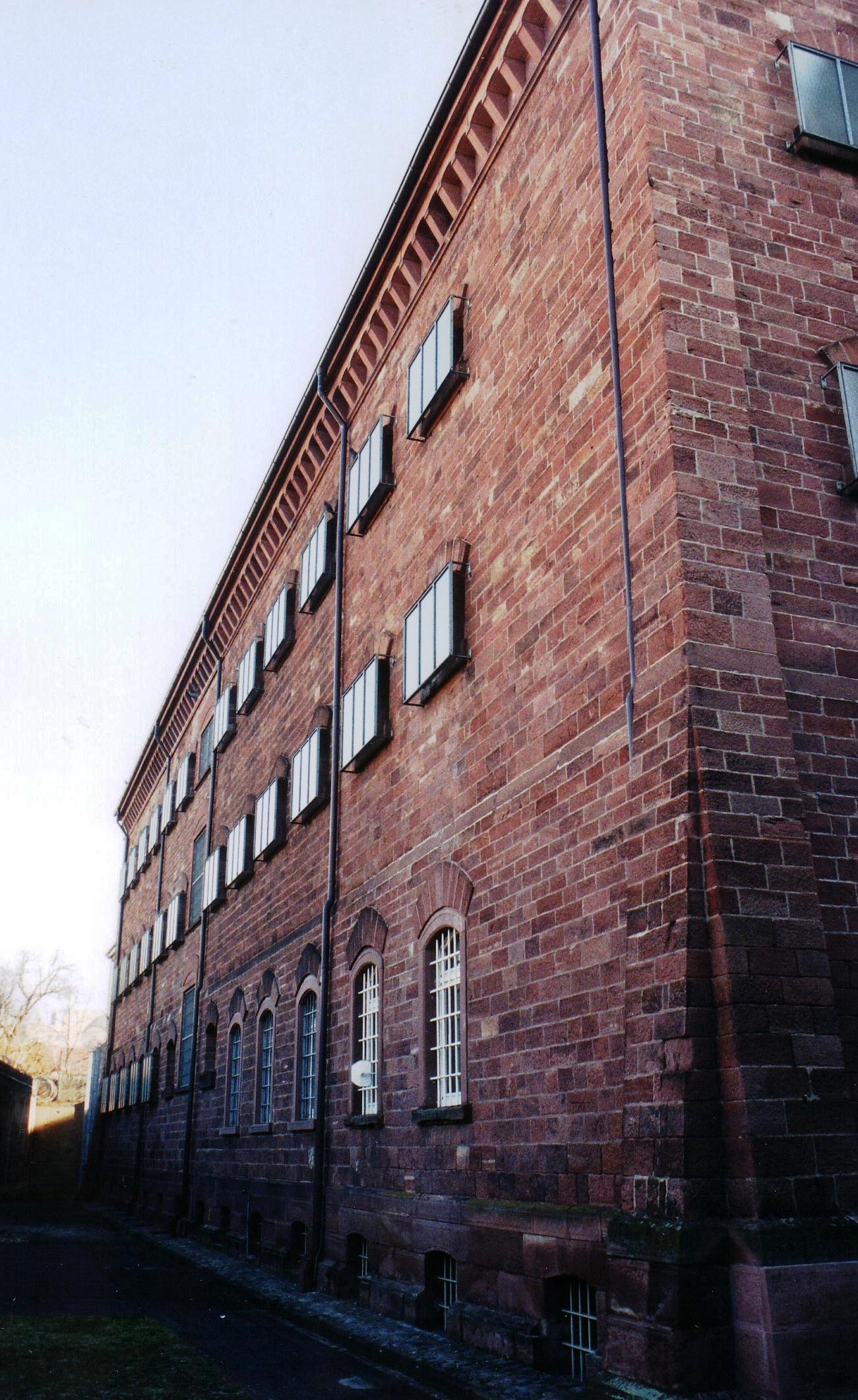 Lörrach prison